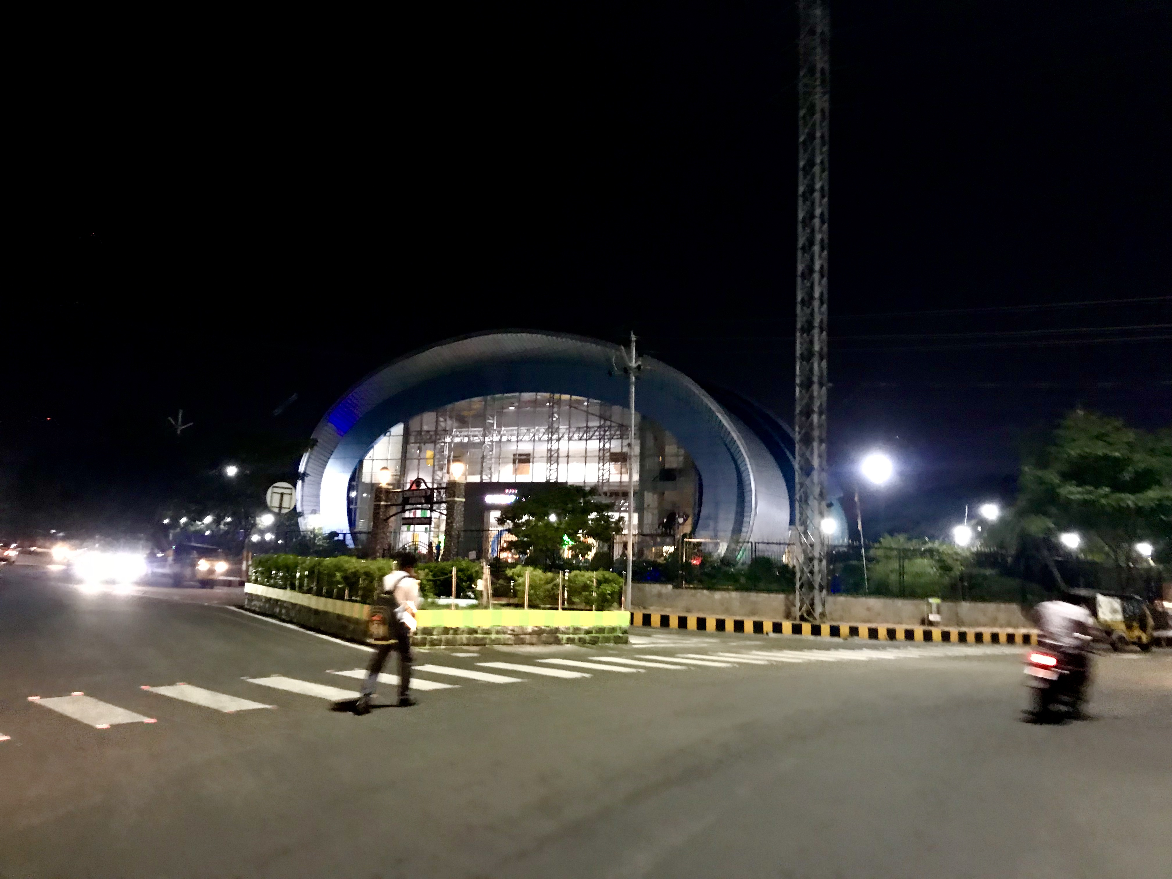 VIDA Children Arena in Vizag